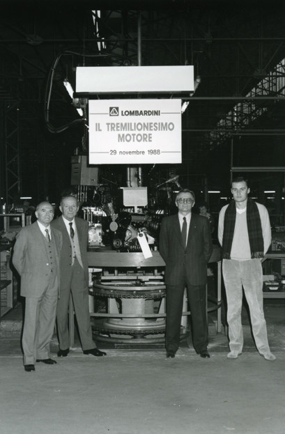 The company celebrates its three millionth engine. On the right, the young Adelmo Lombardini, Franco’s son.